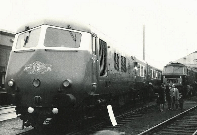 Metropolitan Cammell 8-car "Blue Pullman" dmu "The Bristol Pullman" with the Type 1 1,000hp power car leading, in the new Nanking Blue & White Pullman livery at the Open Day at Bristol (Bath Road) depot, 10/65. Note elongated Pullman crest on nose - and no yellow warning panel. It could be said that the concept of the Blue Pullmans was a precursor of the HST's. Scanned photograph taken with Halina 35X camera.